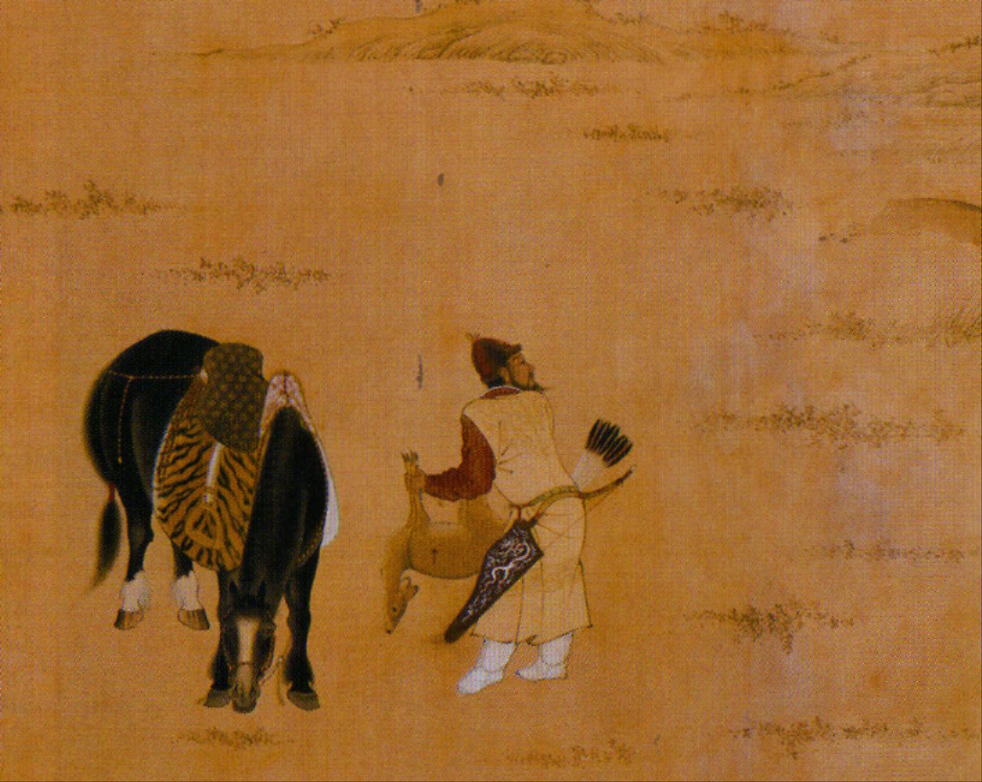 The Xuande Emperor Hunting with Bow